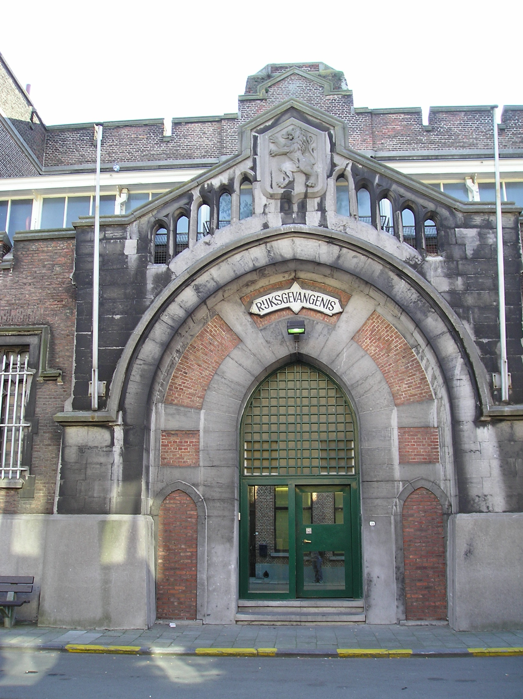 The gate of the prison of Dendermonde (Belgium).